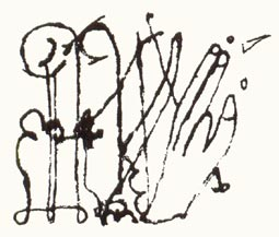 Zakaria, Catholicos of Georgia. Signature